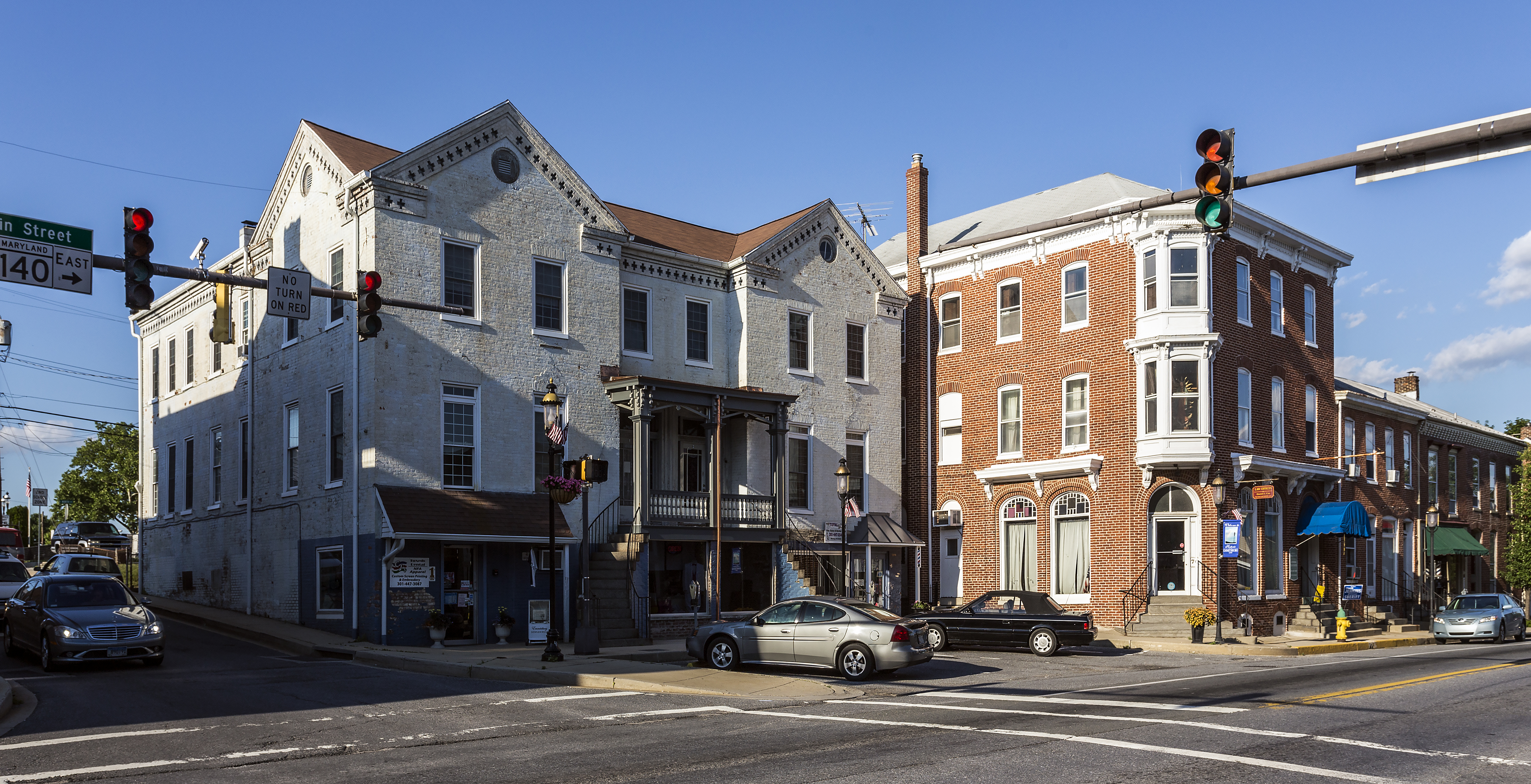 The town square looking northeast, Emmitsburg, Maryland, USA